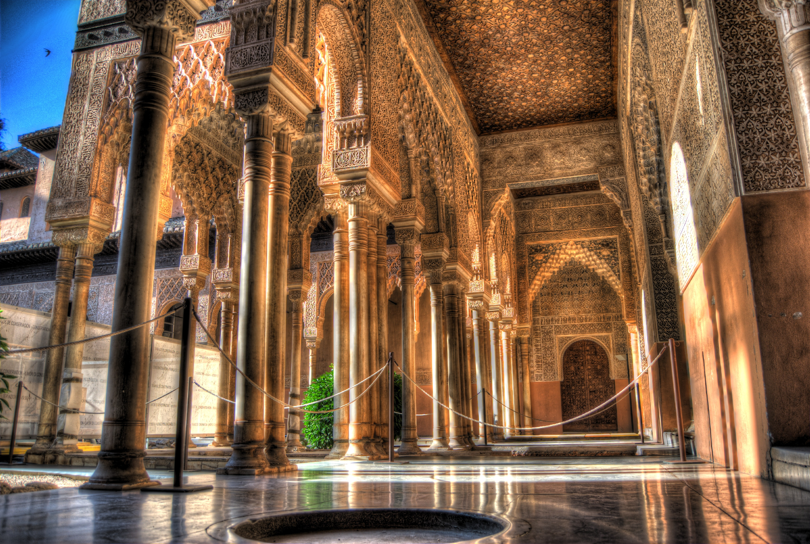 HDR photo of the Patio de los Leones on a July Morning in 2011 during the restauration of the central court and fountain of lions.